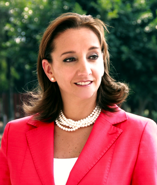 Federal Mexican Congresswoman Claudia Ruiz Massieu